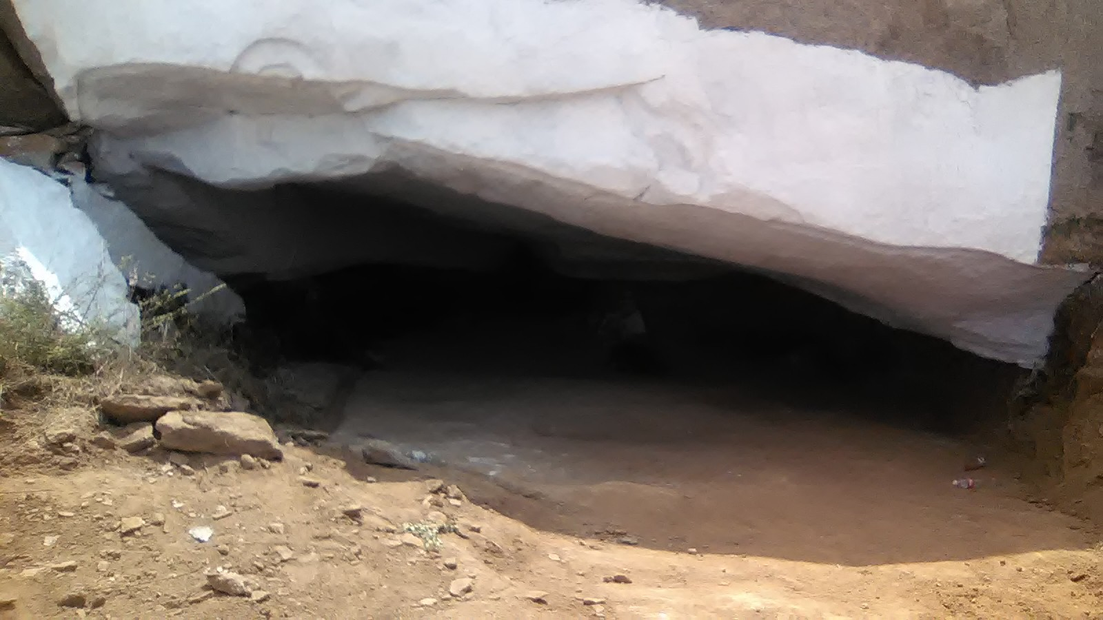 ஒசூர் பிரம்மன் மலையின் கிழக்குப் பக்கத்தில் உள்ள குகையின் வெளிப்புறத் தோற்றம்